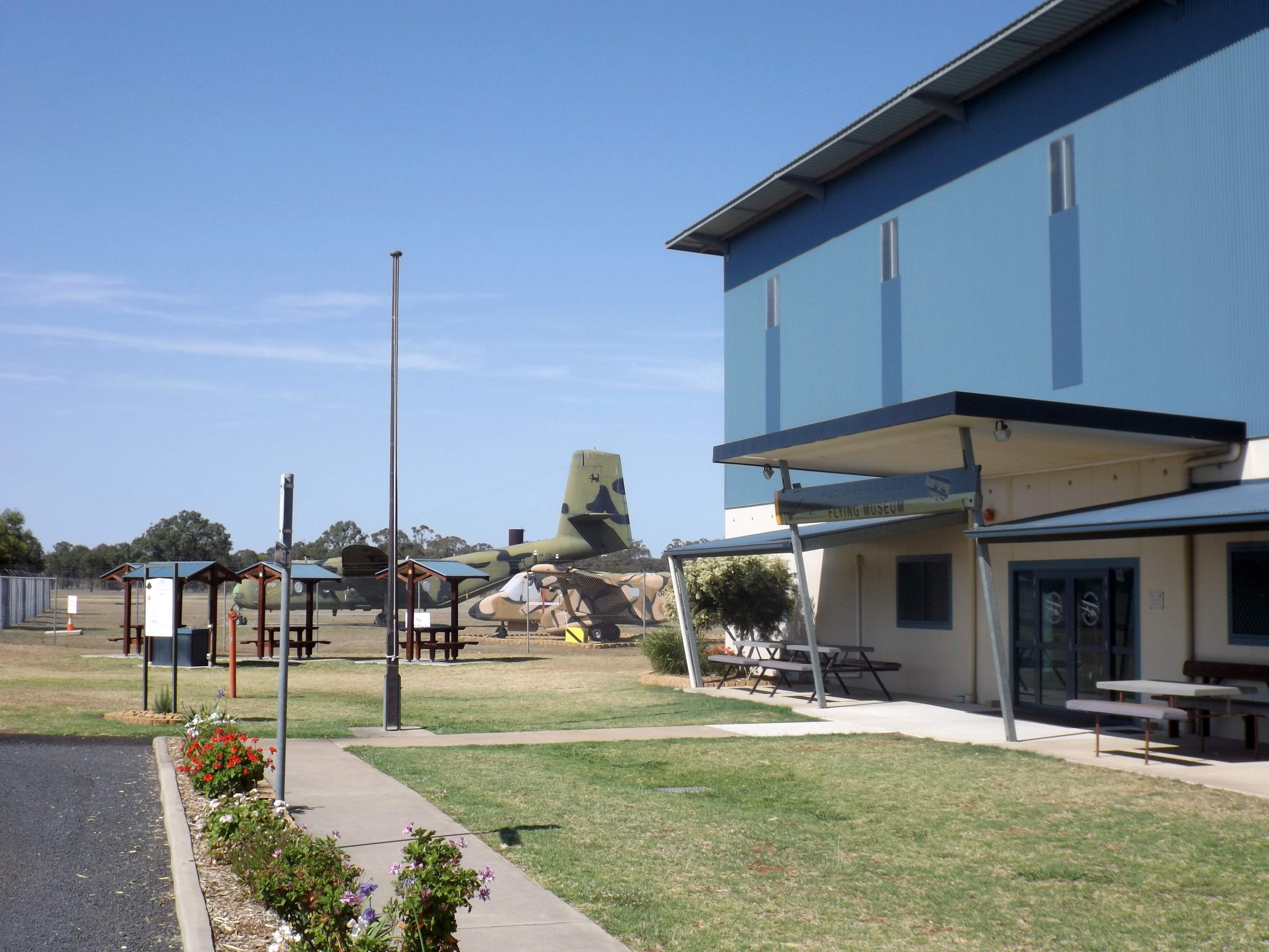 Photo of Australian Army Flying Museum at Oakey, Queensland, Australia.